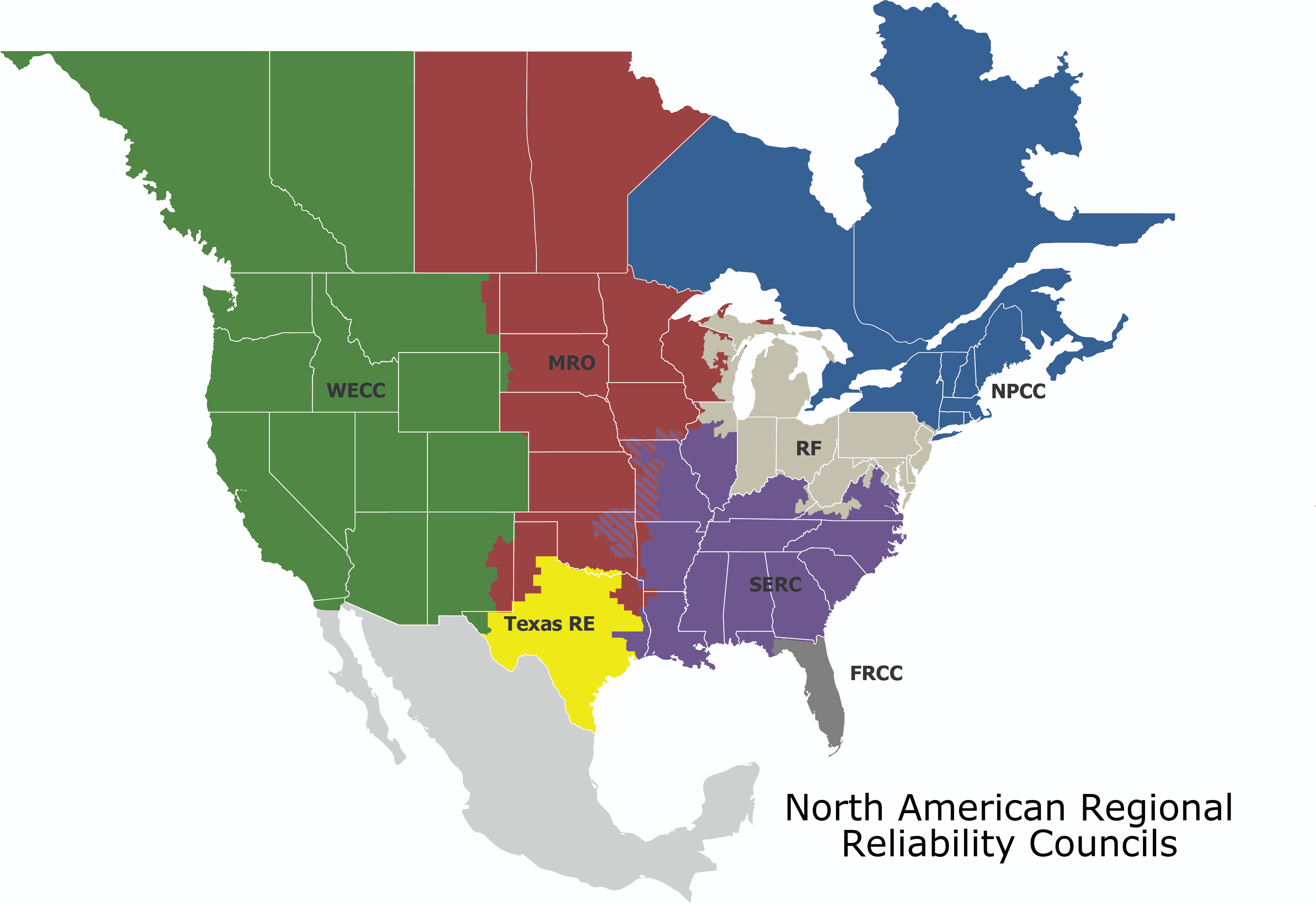 Map of the North American Regional Reliability Councils